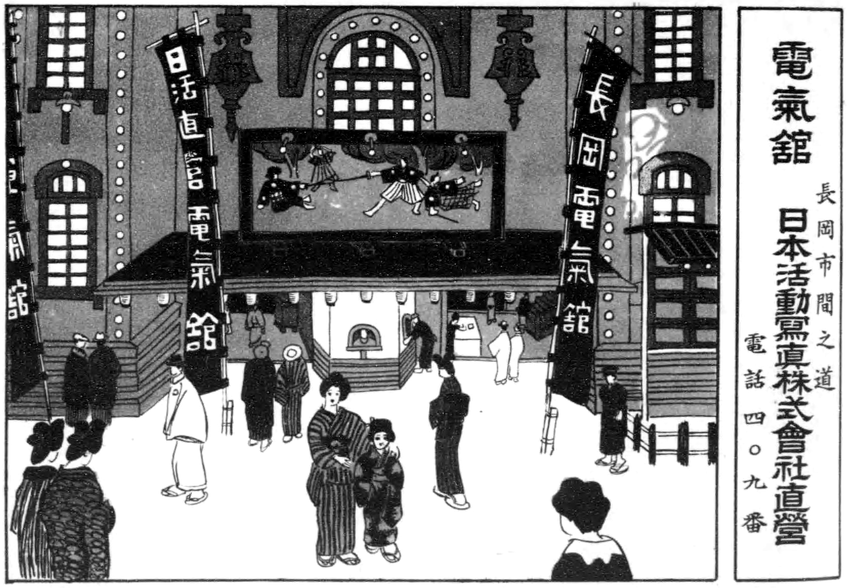 Denkikan (a movie theater in Nagaoka, Niigata Prefecture, Japan) in Taishō era